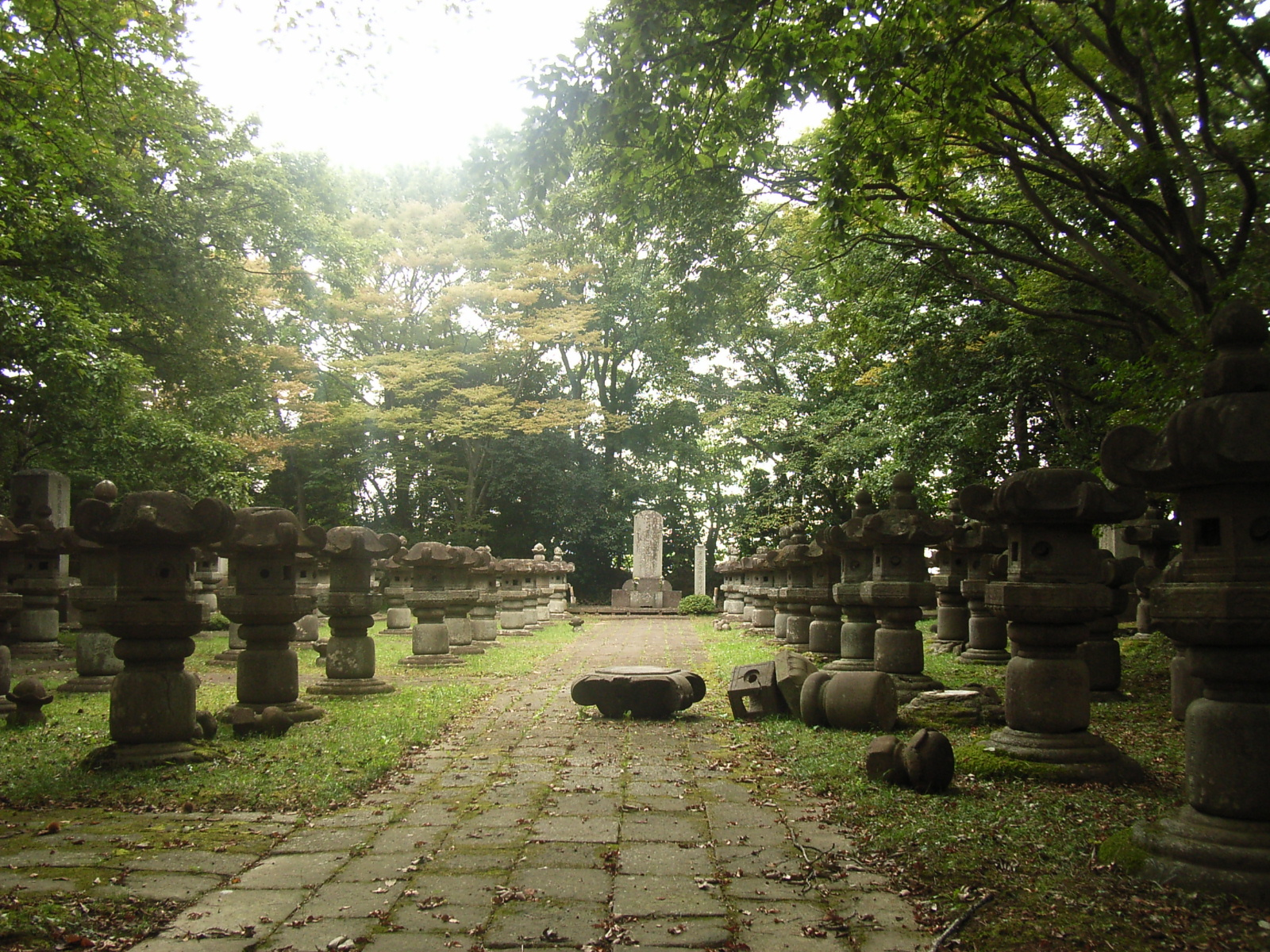 Tomb of the Date family in Dainen Temple. Sendai, miyagi prefecture, Japan.